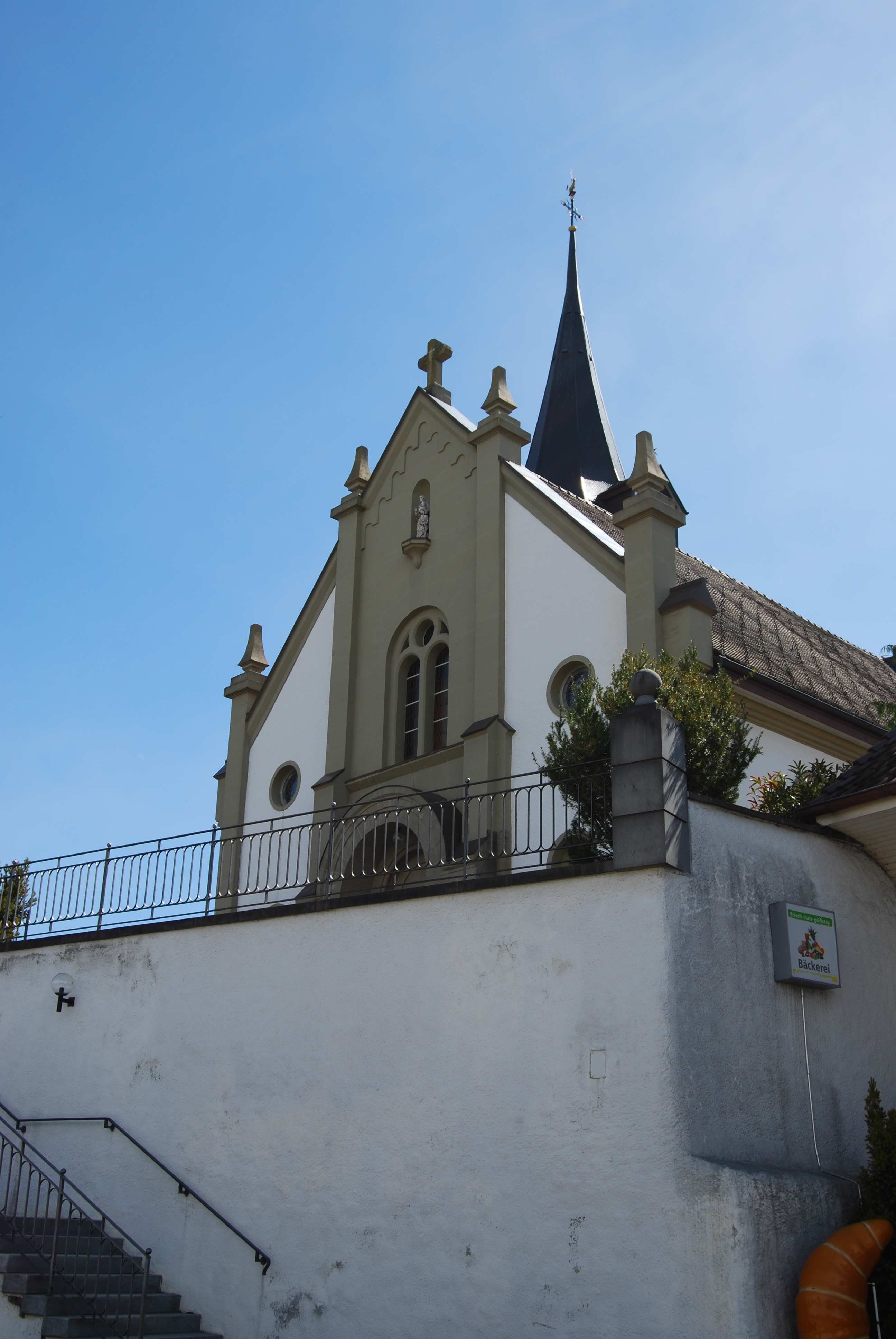 Catholic Church of Ueberstorf, canton of Fribourg, Switzerland